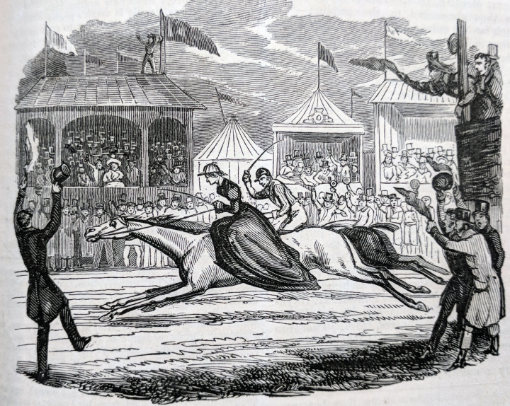 Alicia Thornton The Gallant and Spirited Race at Knavesmire, in Yorkshire for 500gs. and 1000gs. bye — 4 miles — between The Late Col. Thornton’s Lady and Mr. Flint.” Pierce Egan’s Book Of Sports, No. IX. National Sporting Library & Museum